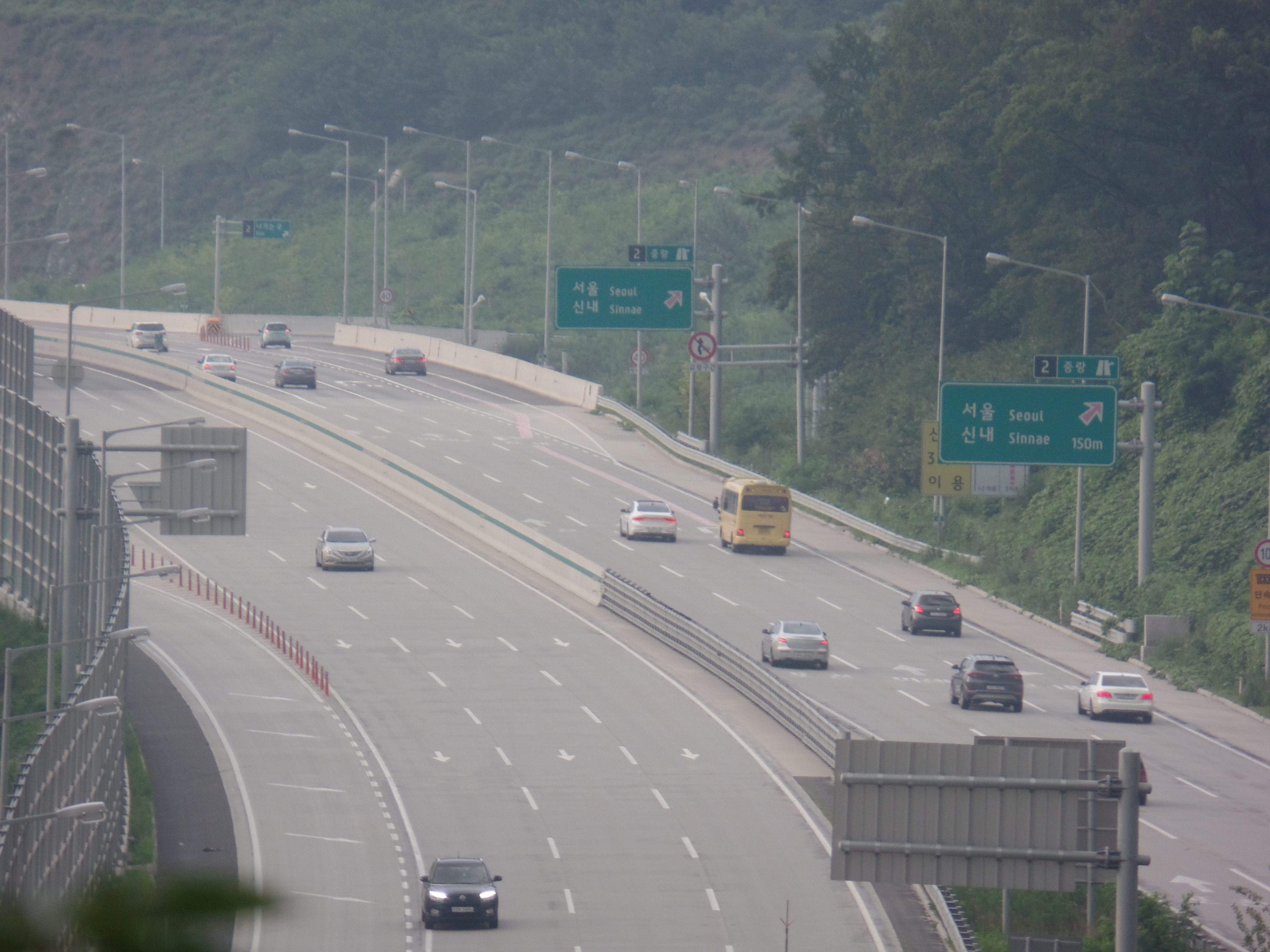 Guri-Pocheon Expressway Guri Tunnel-Jungnang Interchange(Pocheon Direction)